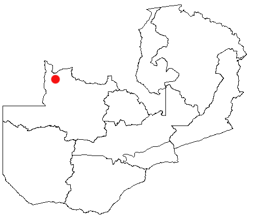 Mwinilunga, Zambia Location Map; created with the GIMP.